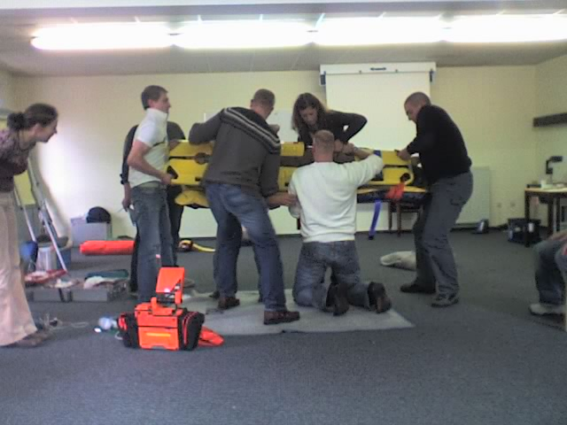 Paramedics from German Red Cross Bremen working with a "scoop stretcher" to pick up a patient with spinal injury in an axial position.